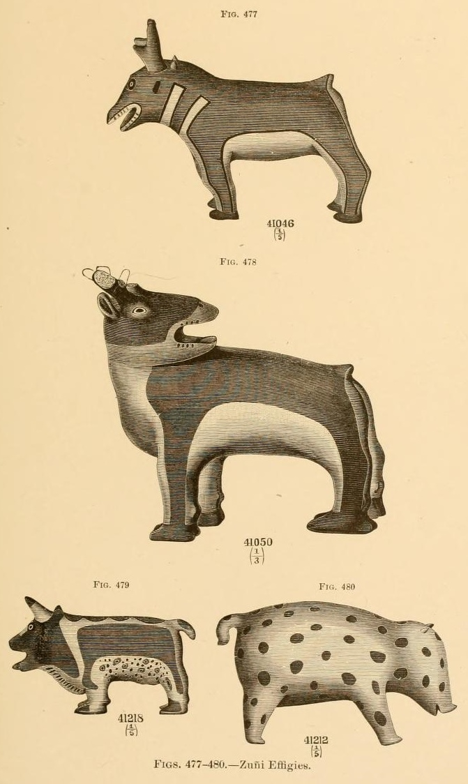 Work in clay of the Zuni Indians